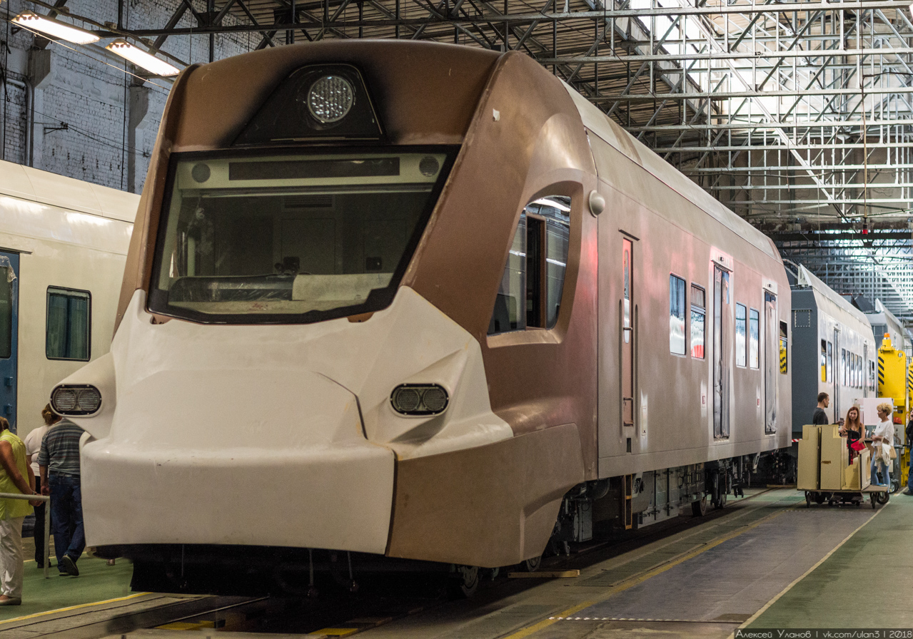 EG2Tv-006 EMU-train in the process of construction at JSCo Tver Carriage Works